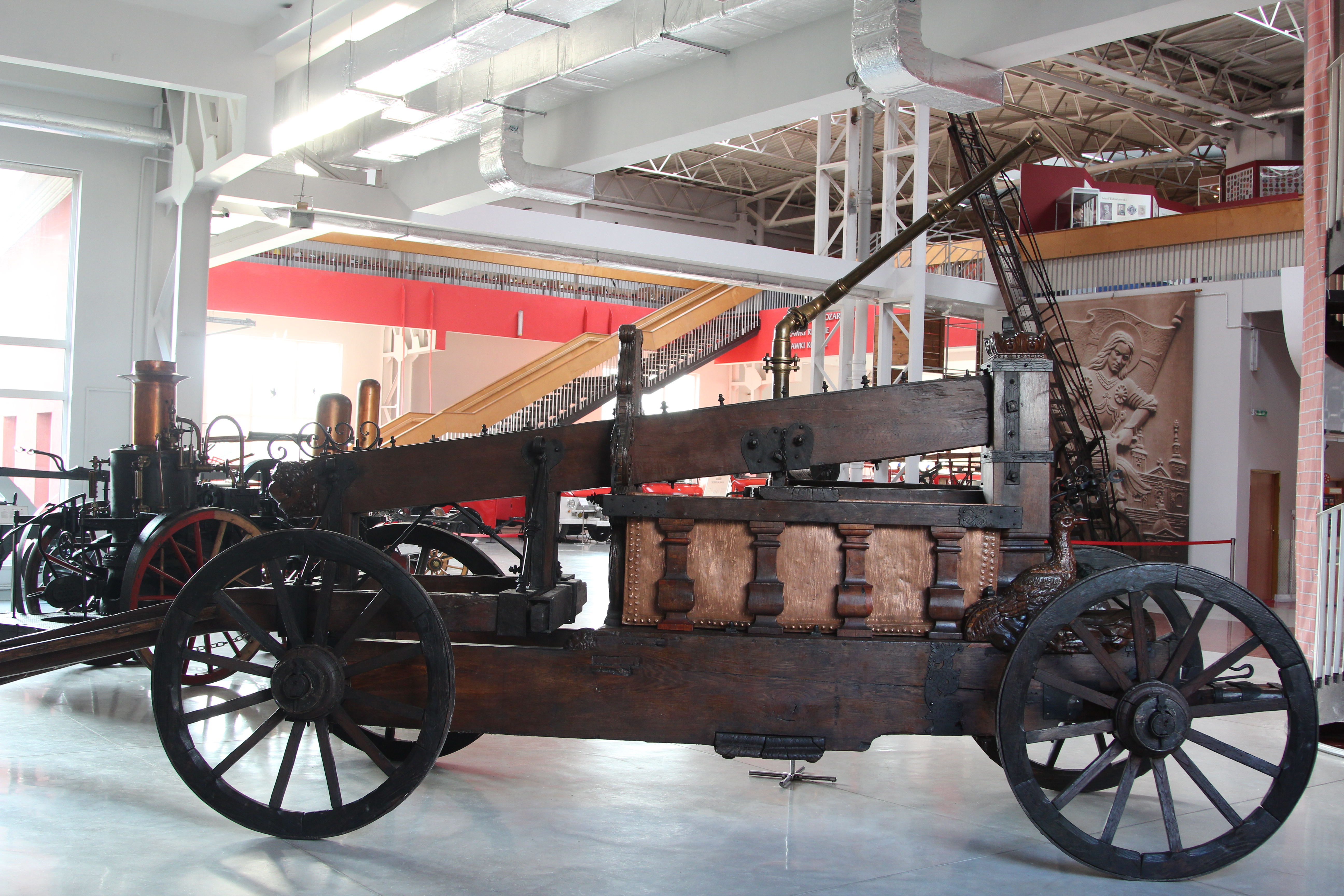 Piston pump from 1717 made in cistercian art workshops in Henryków. The pump and the nozzle were supplied by the Sebastian Goltz bell and mortar foundry from Wrocław